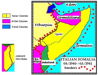 Map of Italian Somalia after the conquest of British Somaliland (in August 1940) and areas around Moyale/Buna in Kenya (in July 1940). Within the green line is Ogaden, annexed from Ethiopia in 1936. The red dotted line encircles Mussolini's "Grande Somalia", that lasted from August 1940 to March 1941 under governor De Simone.